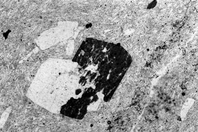 Photomicrograph of a porphyritic-aphanitic felsic rock. Plagioclase phenocrysts (white) and hornblende phenocryst (dark; intergrown with plagioclase) are set in a fine matrix of plagioclase laths that show flow structure. Plain polarized light; length of photo is 2.6 mm. "Most felsic rocks are porphyritic with phenocrysts that include plagioclase (most common), biotite, hornblende, orthopyroxene (rare), and orthoclase (rare) (fig. 4)." Middle Eocene Igneous Rocks in the Valley and Ridge of Virginia and West Virginia